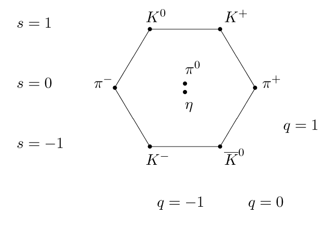 Mesons organized into an octet according to the Eightfold way